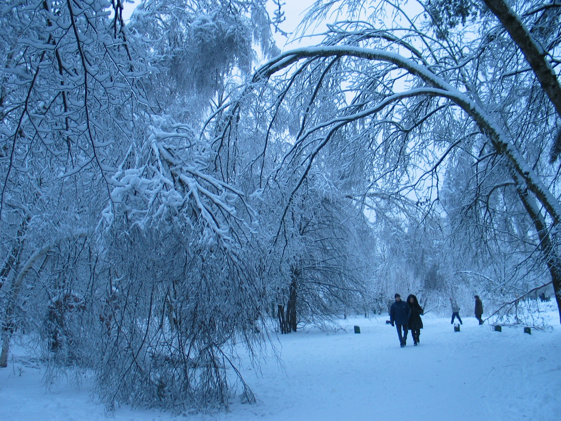 Glaze ice in Moscow. Most (but not all) trees eventually retained their form after a thaw.